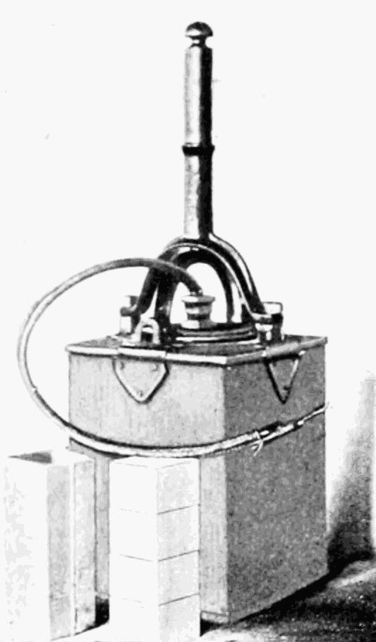 Gun cotton spar torpedo